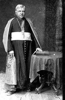 Photograph of Bishop Salpiointe (1825-1898)